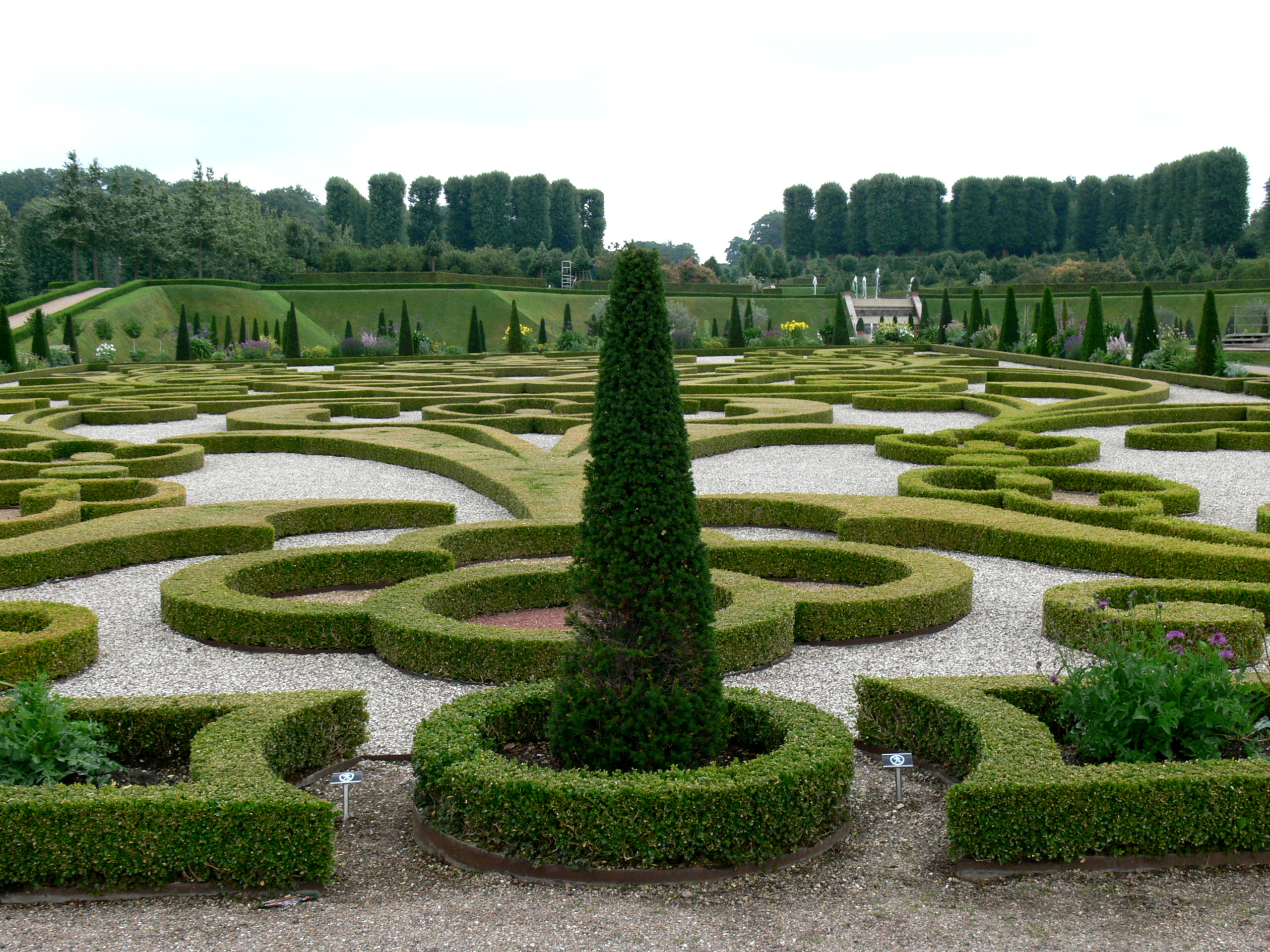 Frederiksborg palace. Baroque palace gardens.